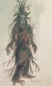 Leshiy by Viktor Vasnetsov